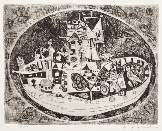 Nearly 20,000 images of artworks the museum believes to be in the public domain are available to download on this site. Other images may be protected by copyright and other intellectual property rights. By using any of these images you agree to LACMA's Terms of Use.